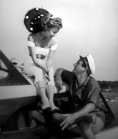 Publicity photo of Janet Blair and Sid Caesar from the television show Caesar's Hour.